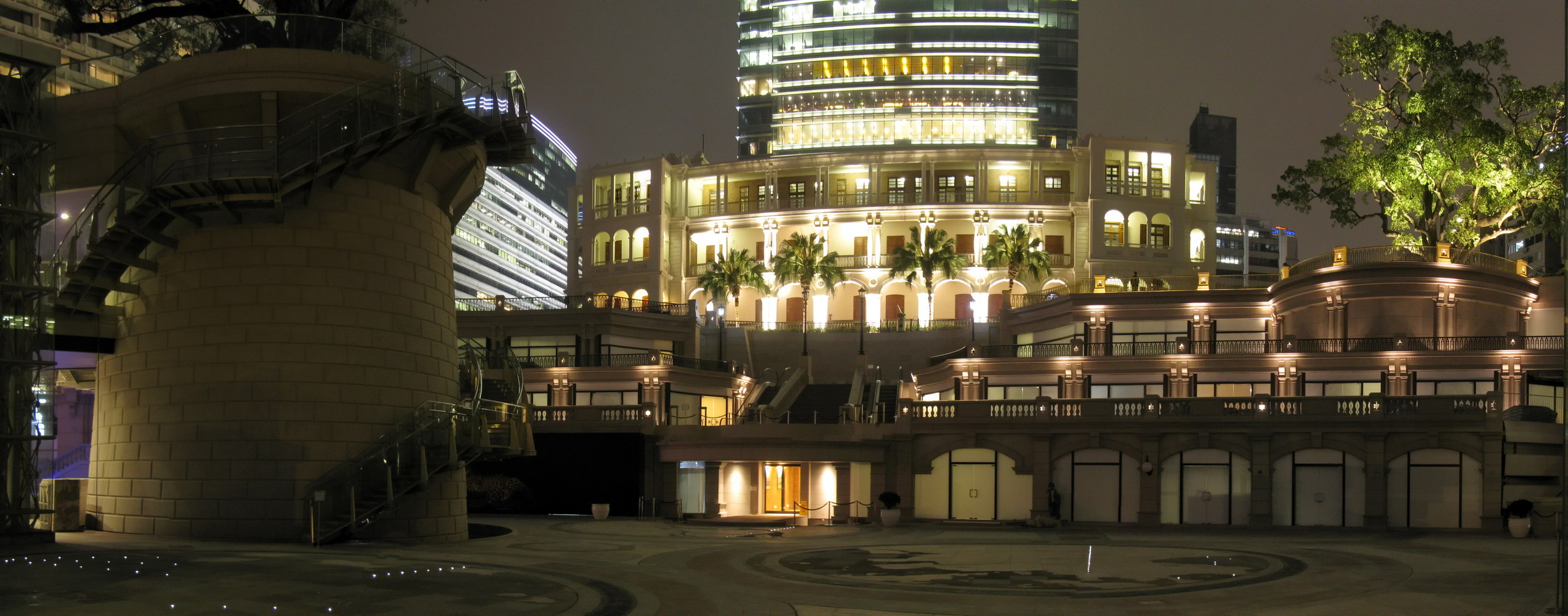 1881 Heritage / Former Marine Police Headquarters Compound (Panoramic view)